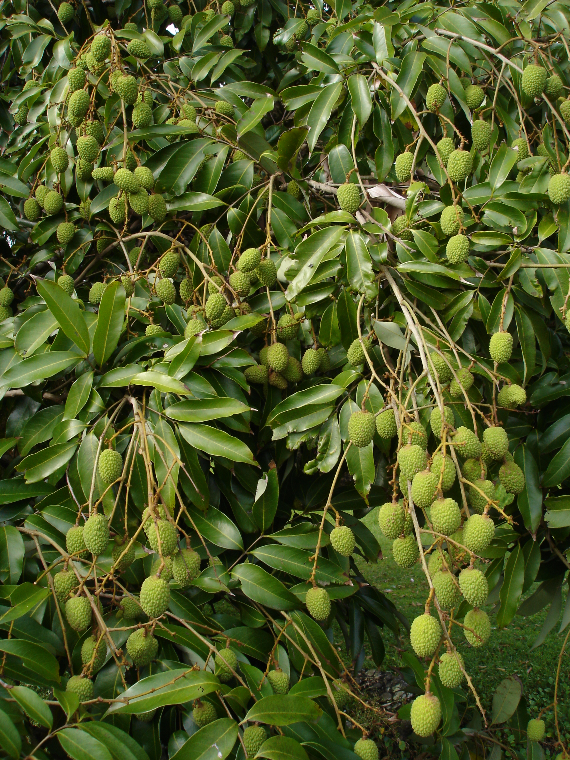 Description: Letchi, "Nephelium litchi", november 2004, La Réunion Source: Bouba